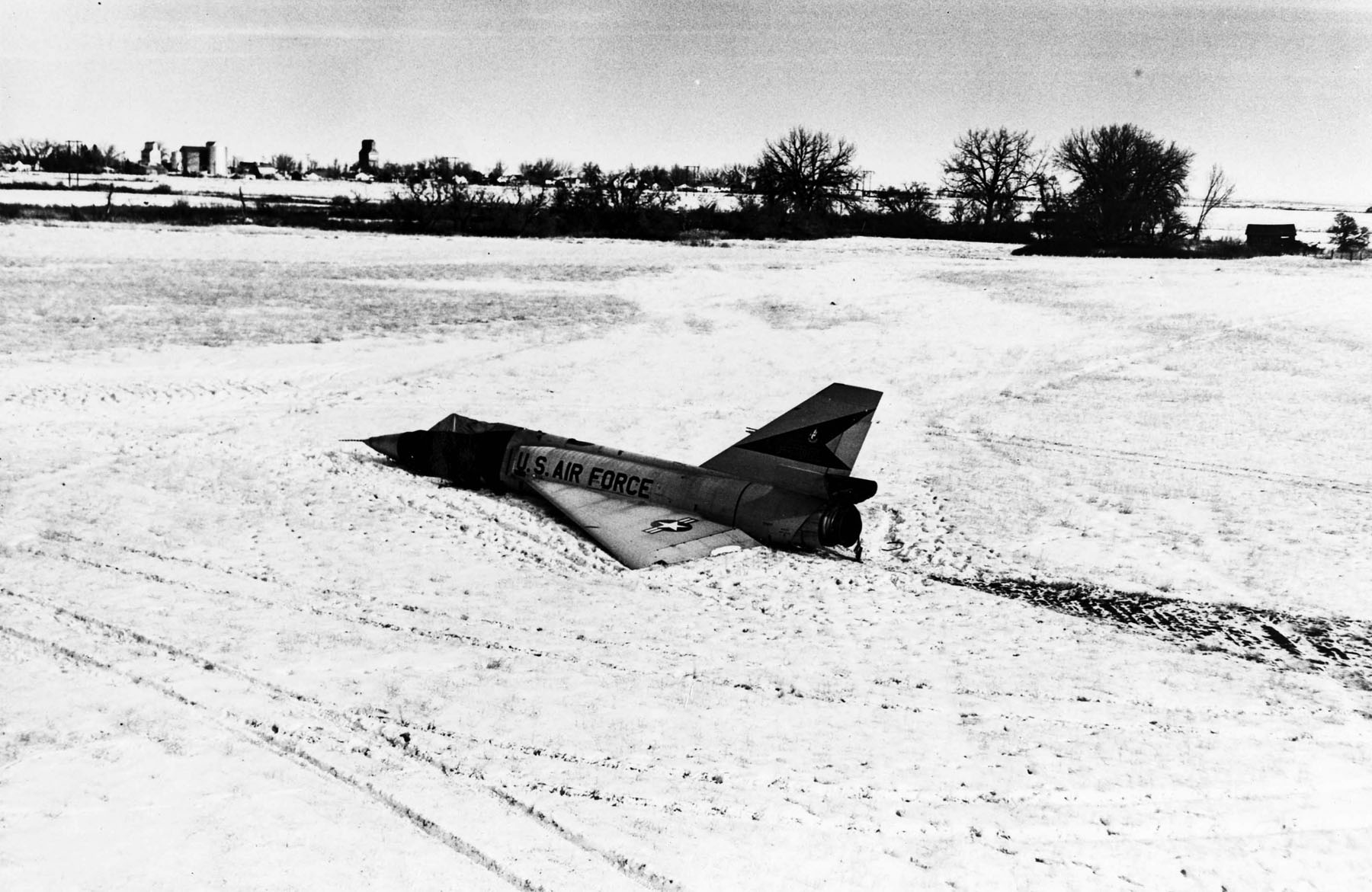 F-106, number 58-0787, landed almost intact in a snowy field after the pilot ejected.